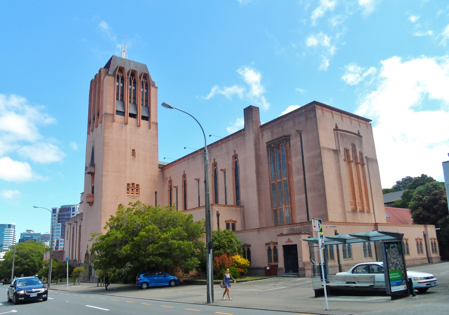 Rear/side view of Wellington Cathedral of St Paul. The Anglican Cathedral of Wellington, New Zealand in 2015.